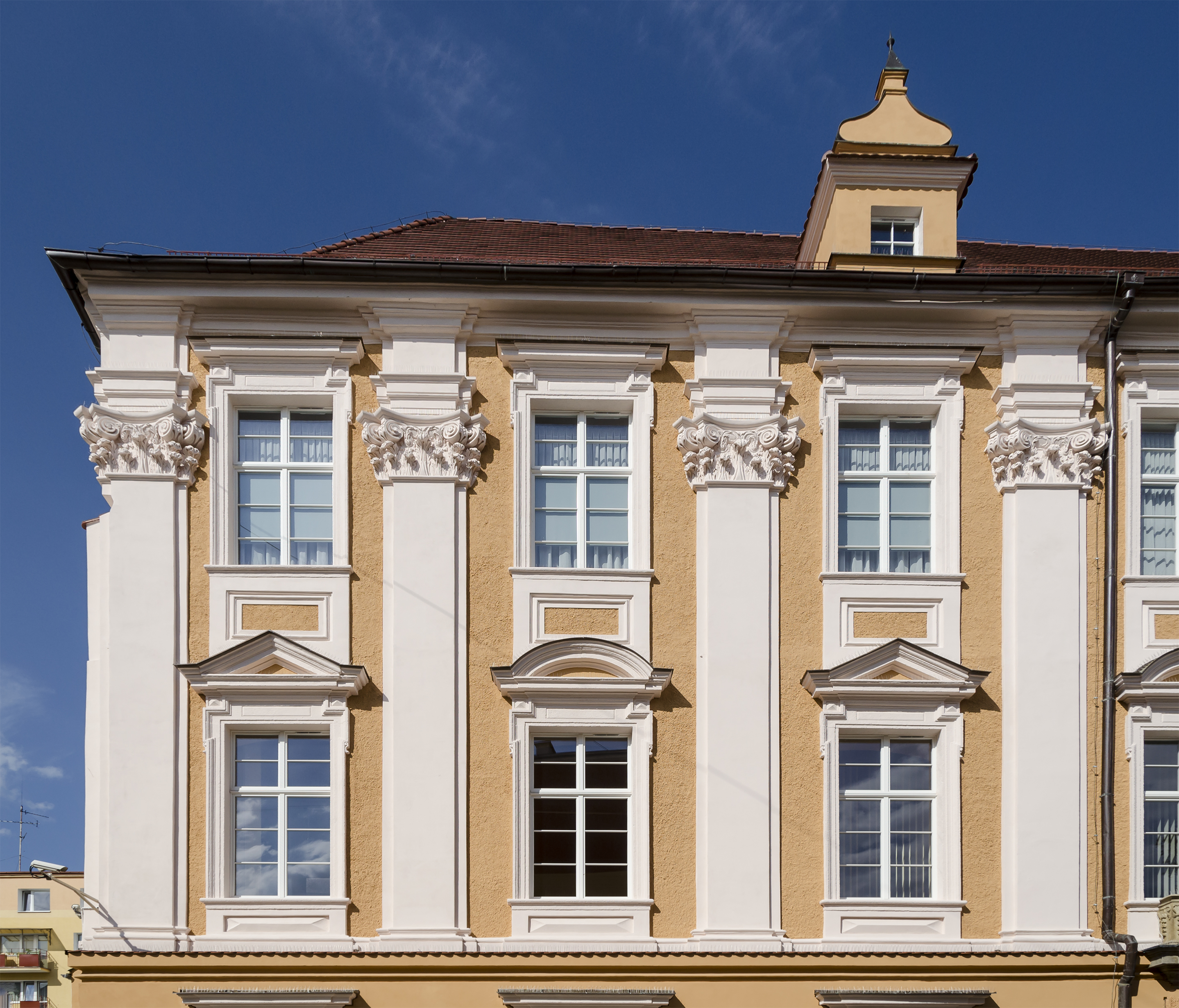 Bishops Palace in Nysa